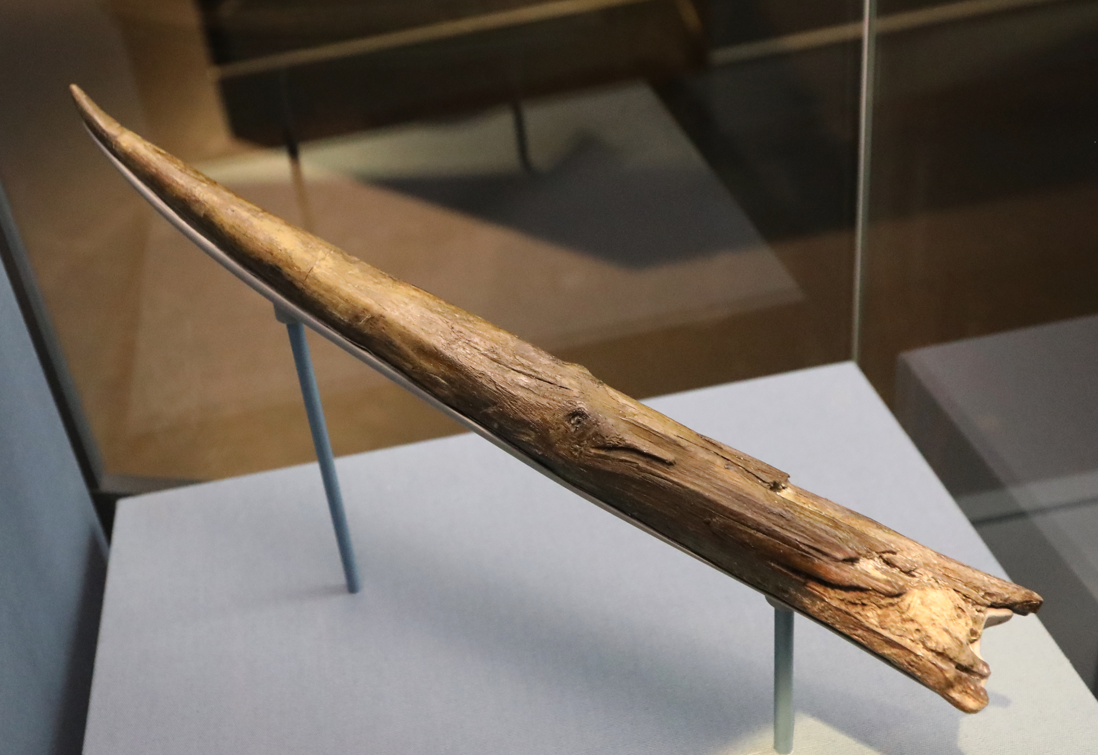 Photo of the Clacton Spear